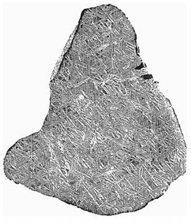 A "nature print" of the Elbogen iron meteorite, sectioned, polished, etched and inked.